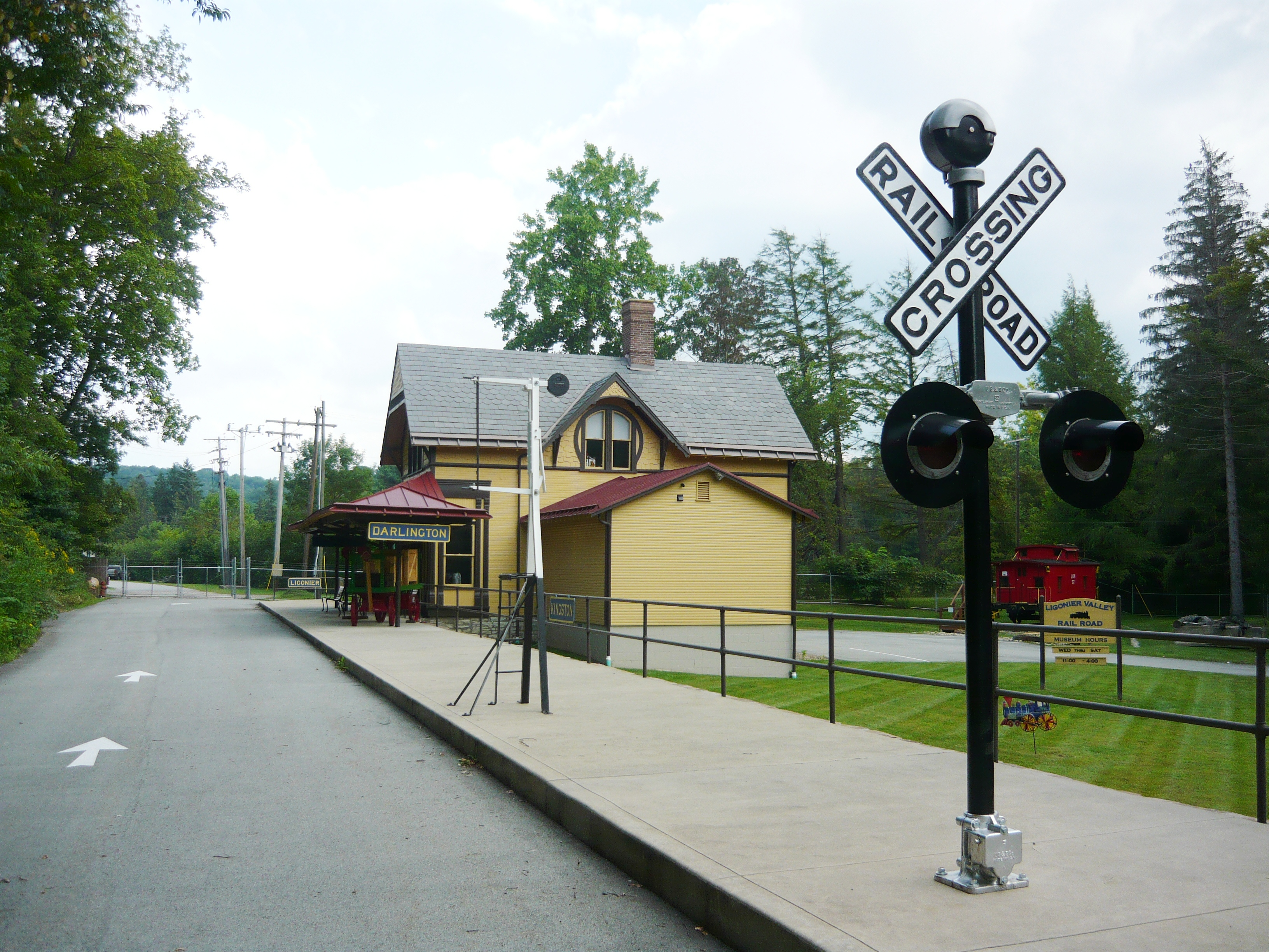 Darlington Station — used by the Ligonier Valley Railroad until line closure in 1952. The station was built circa 1878, and now houses the Ligonier Valley Rail Road Museum. Street address: 3032 Idlewild Hill Lane, Ligonier (actually in Ligonier Township), Westmoreland County, Pennsylvania.